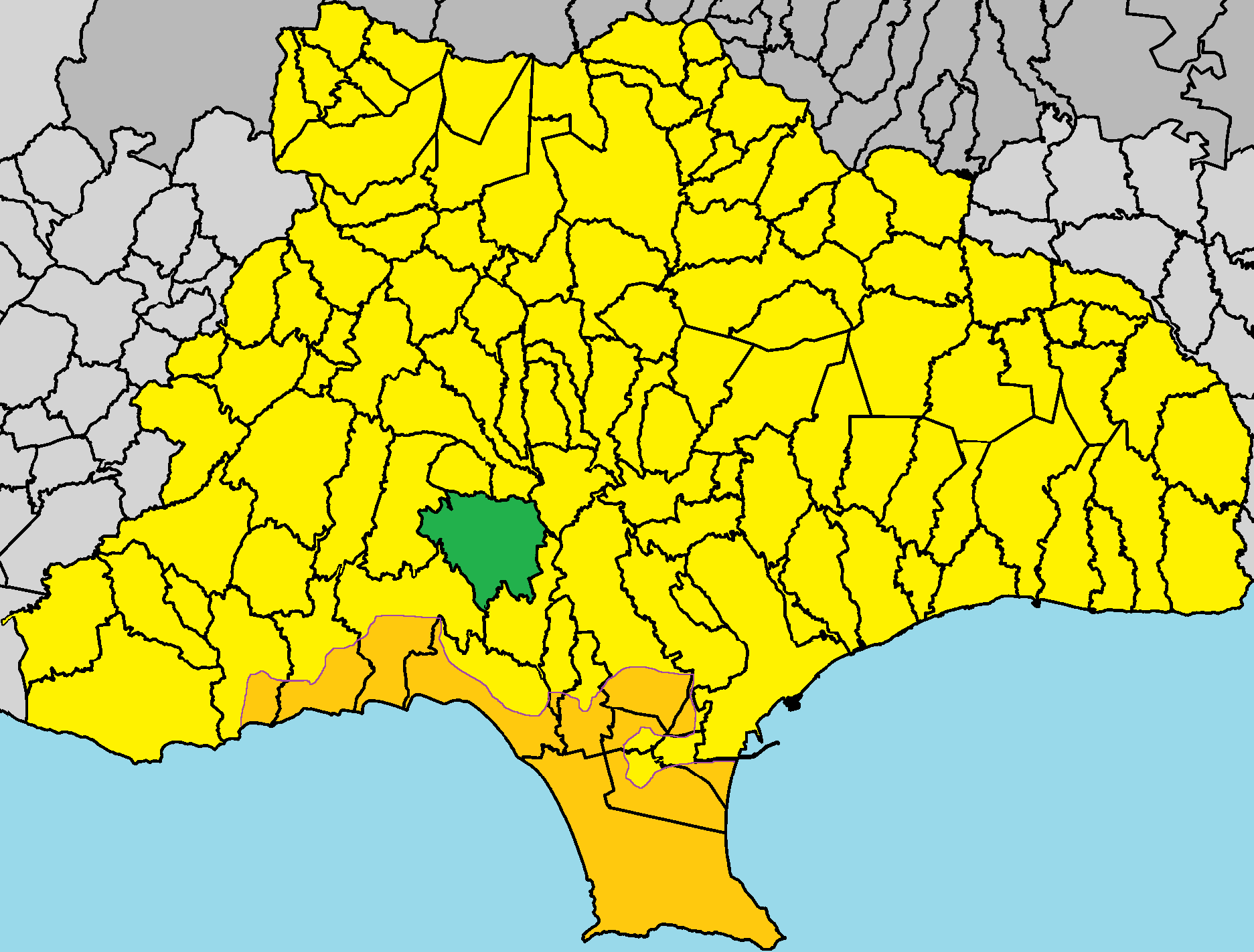 Souni–Zanatzia in Limassol District.